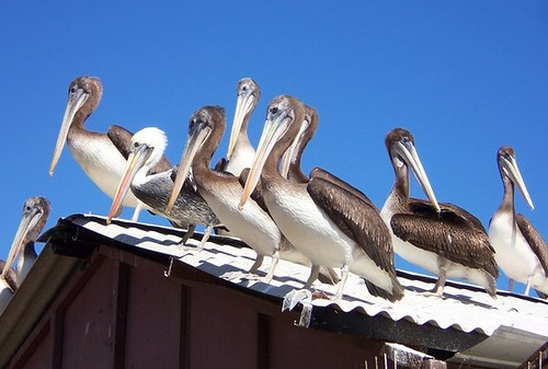 Peruvian Pelicans (Pelecanus thagus) in Valparaíso, Chile